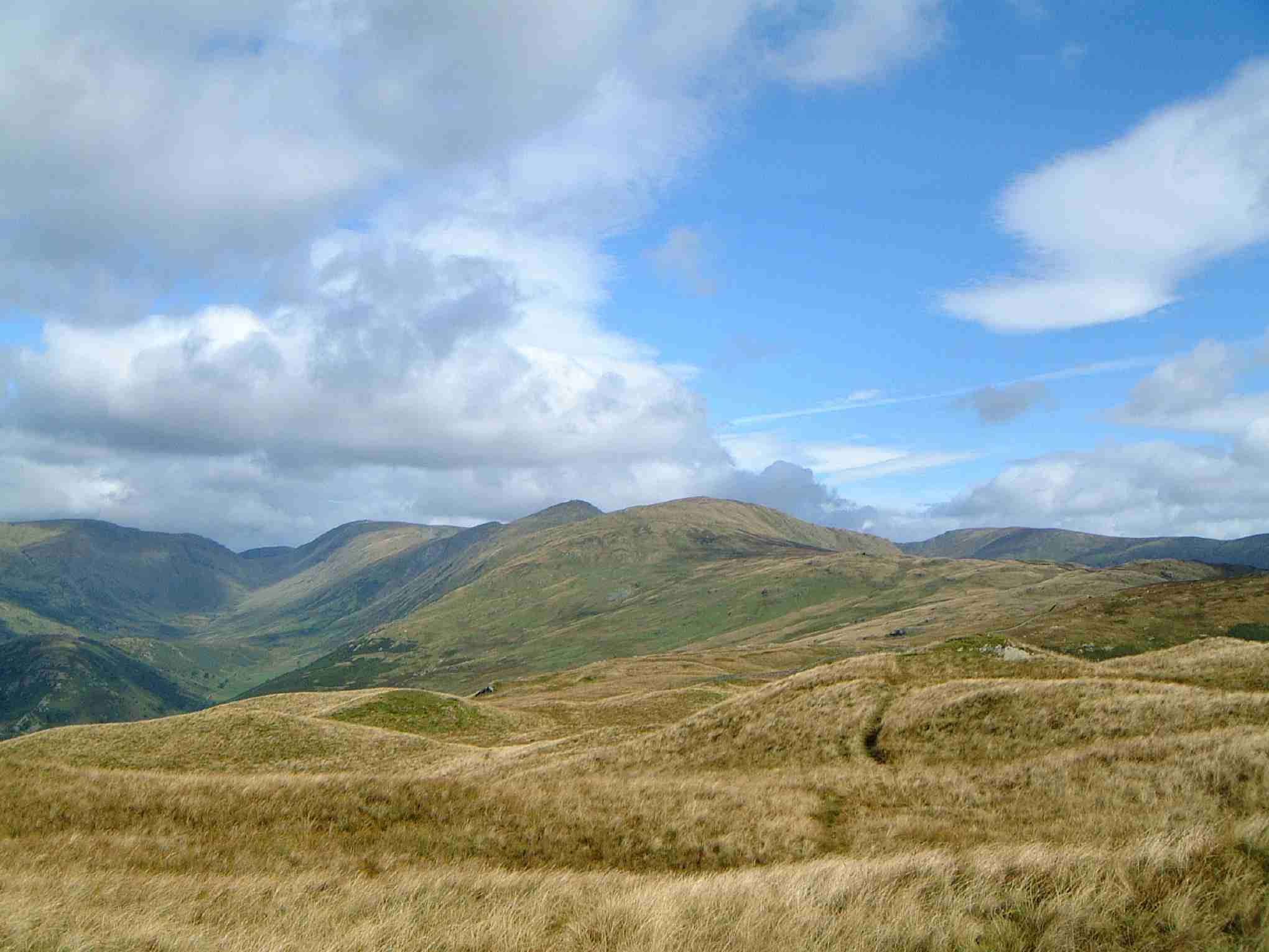 Yoke seen from the Garburn Pass track on the approach from Troutbeck. The Troutbeck valley is on the left hand side Personal photograph taken by Mick Knapton on September 6th 2001